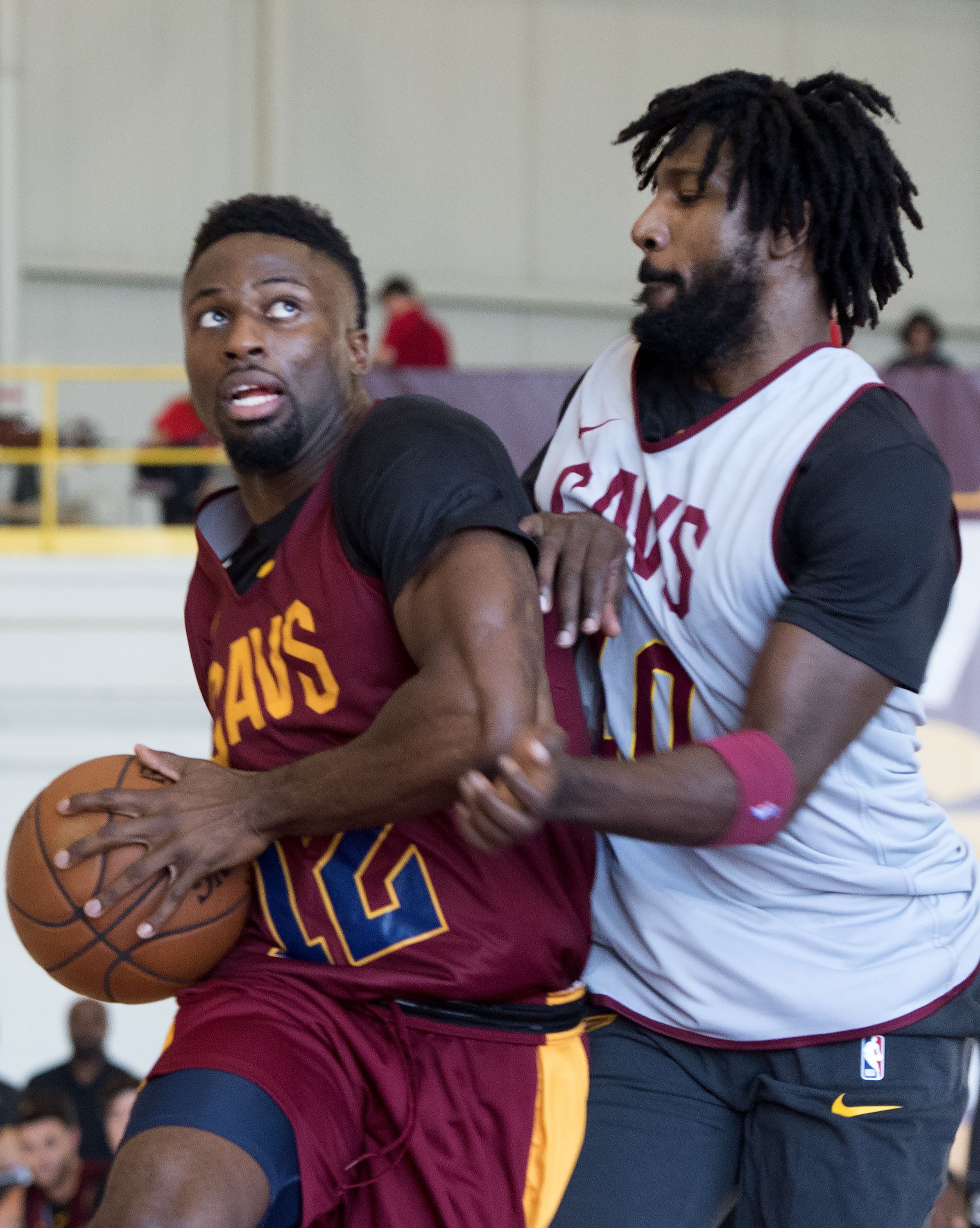 David Nwaba tries to get past John Holland in the Cleveland Cavalier Wine & Gold Scrimmage game on Wright-Patterson Air Force Base, Ohio, Sept. 30, 2018. The Ohio NBA team came to the base giving Airmen and family the opportunity to watch them in action. (U.S. Air Force photo by R.J. Oriez)